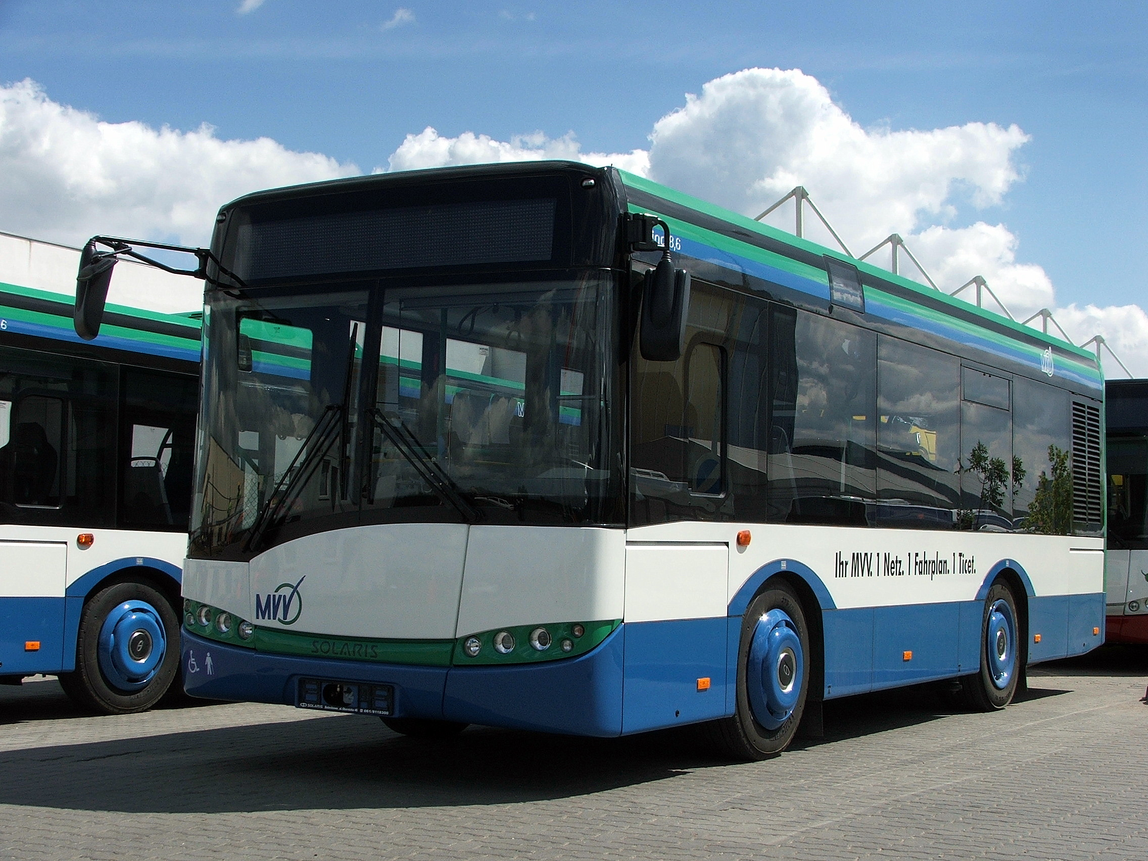 The new Solaris Alpino 8,6 bus for MVV Unterschleißheim, Germany.